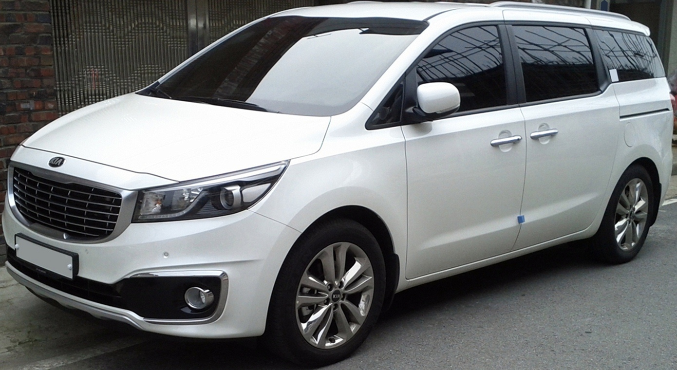 Kia All New Carnival